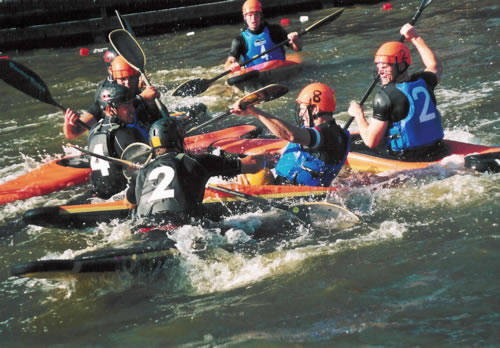 Canoepolo game between holland and germany at the European Championships in Ireland